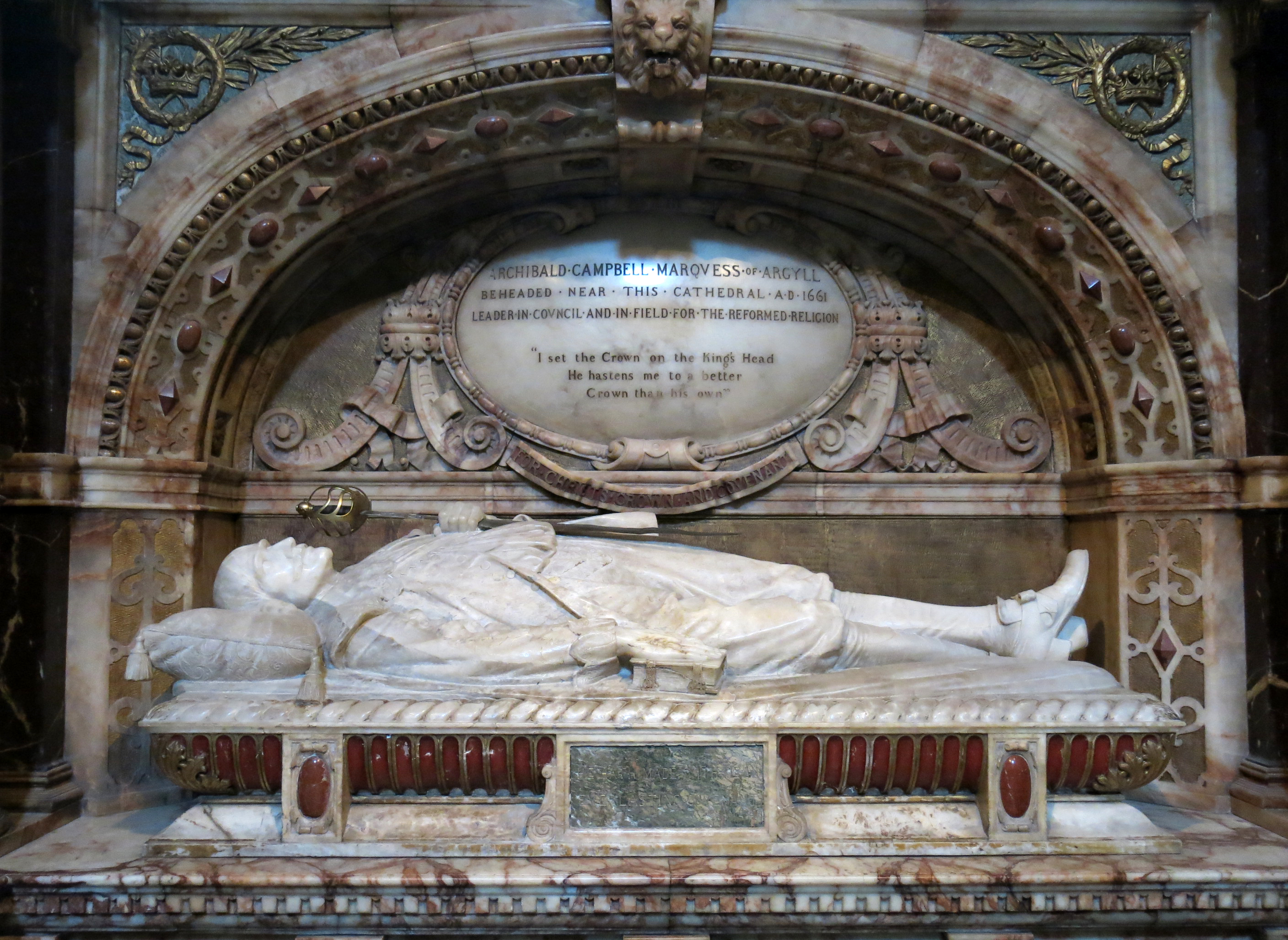 Edinburgh, St Giles' Cathedral.